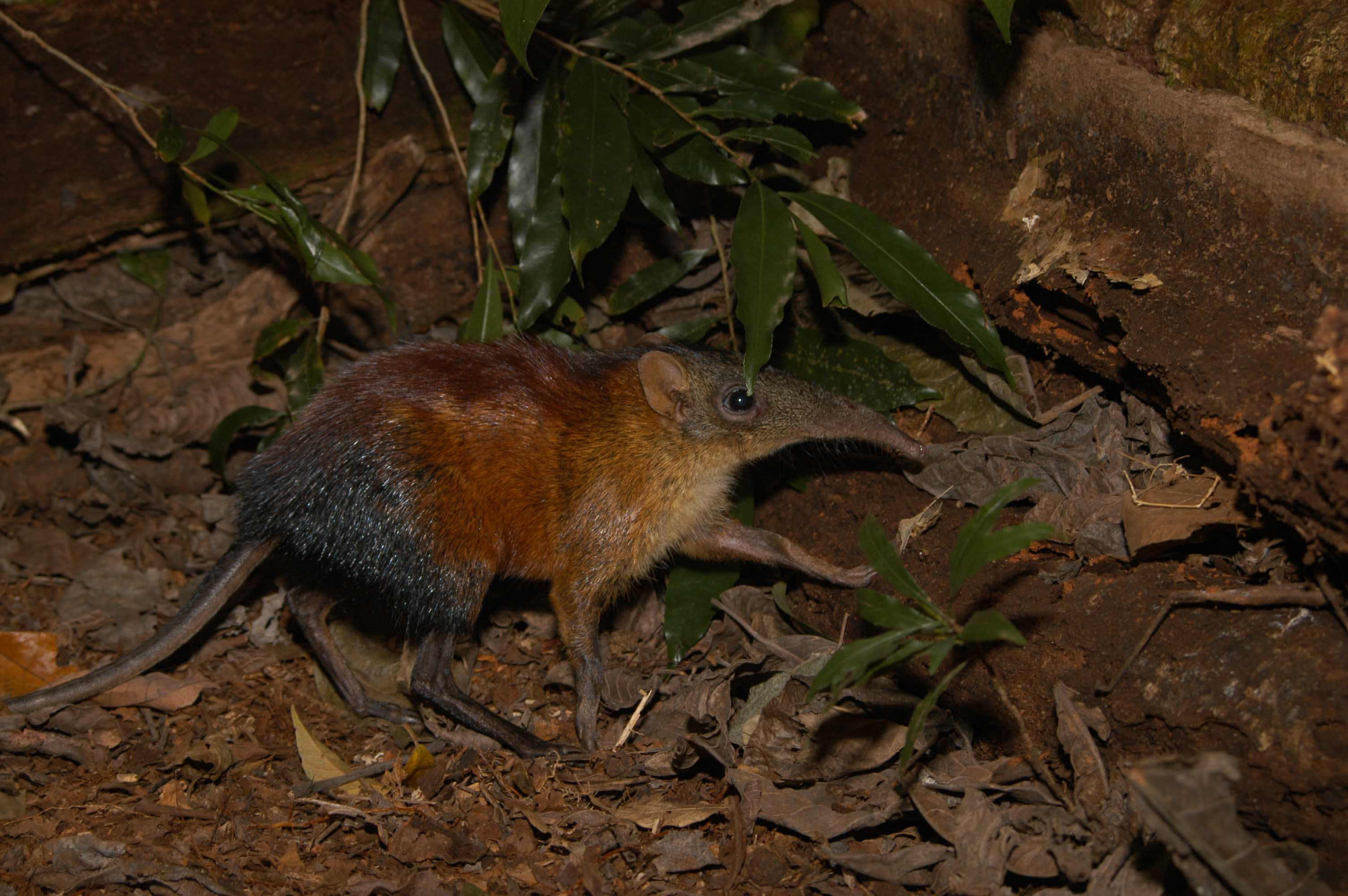 A Rhynchocyon udzungwensis (grey-faced sengi) in Mwanihana forest, Udzungwa Mountains National Park, Tanzania